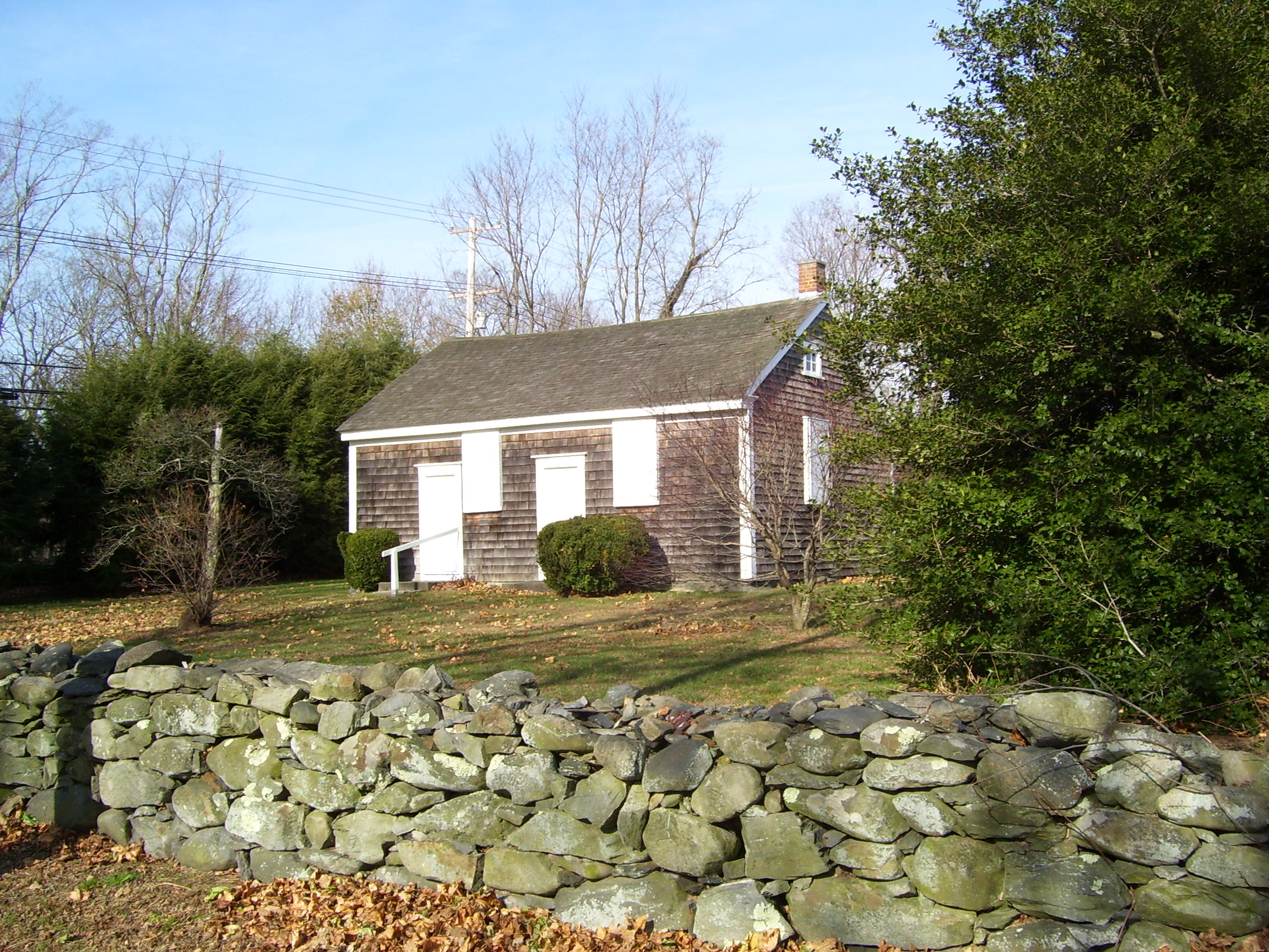 This is my 2008 photo of the Jamestown, Rhode Island Friends Meetinghouse.